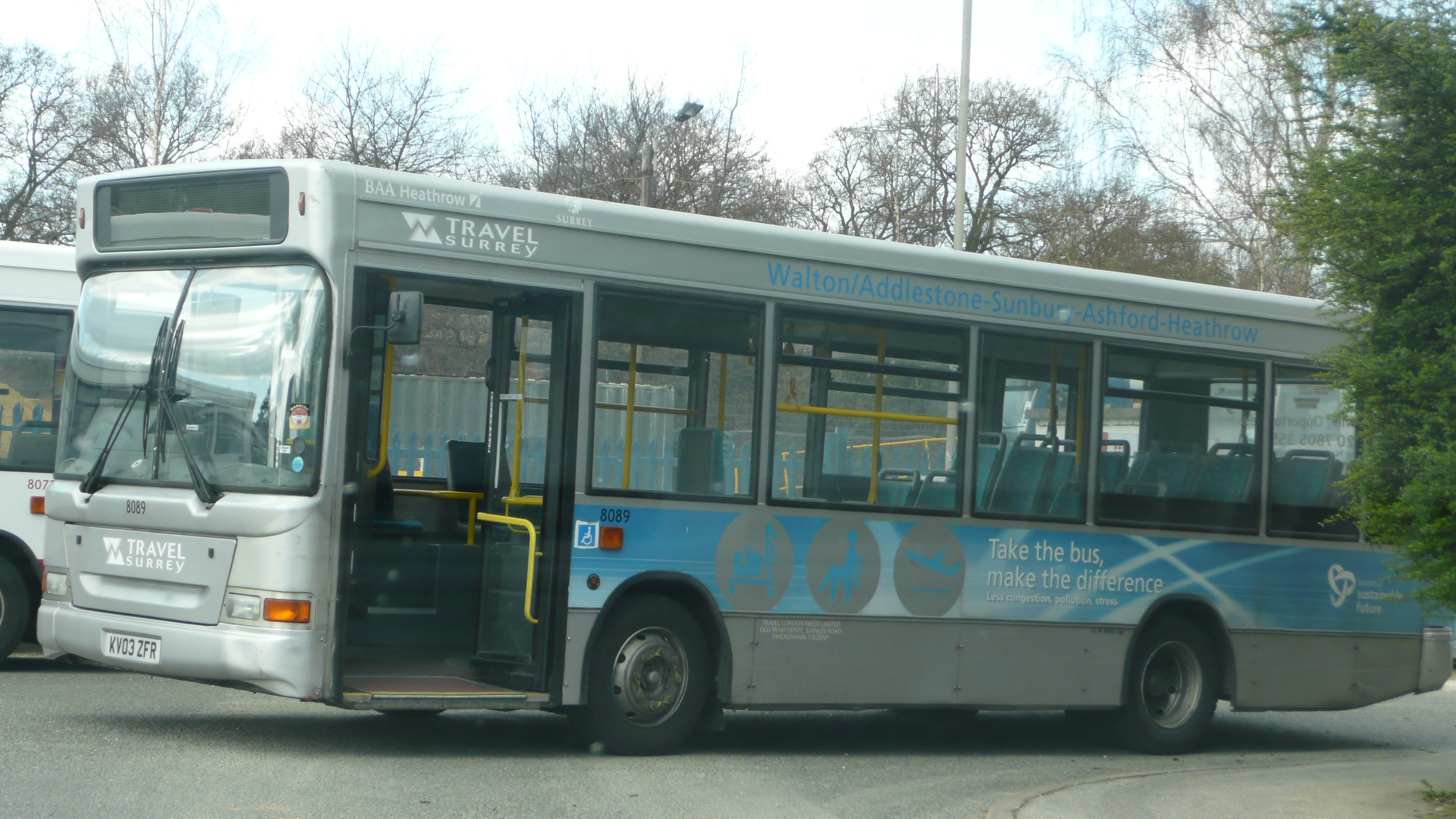 Travel Surrey 8089 (KV03 ZFR), a Dennis Dart SLF/Plaxton Pointer MPD, seen parked outside the big section of the company's Byfleet depot in Wintersells Industrial Estate, Byfleet, Surrey. It wears a dedicated silver livery for use on route 555/557 (and originally 556, that route has since been withdrawn) - which serve Heathrow airport, one of a number of British Airports Authority (BAA) incurred silver based liveries introduced at the time. This livery finally died out in 2011.